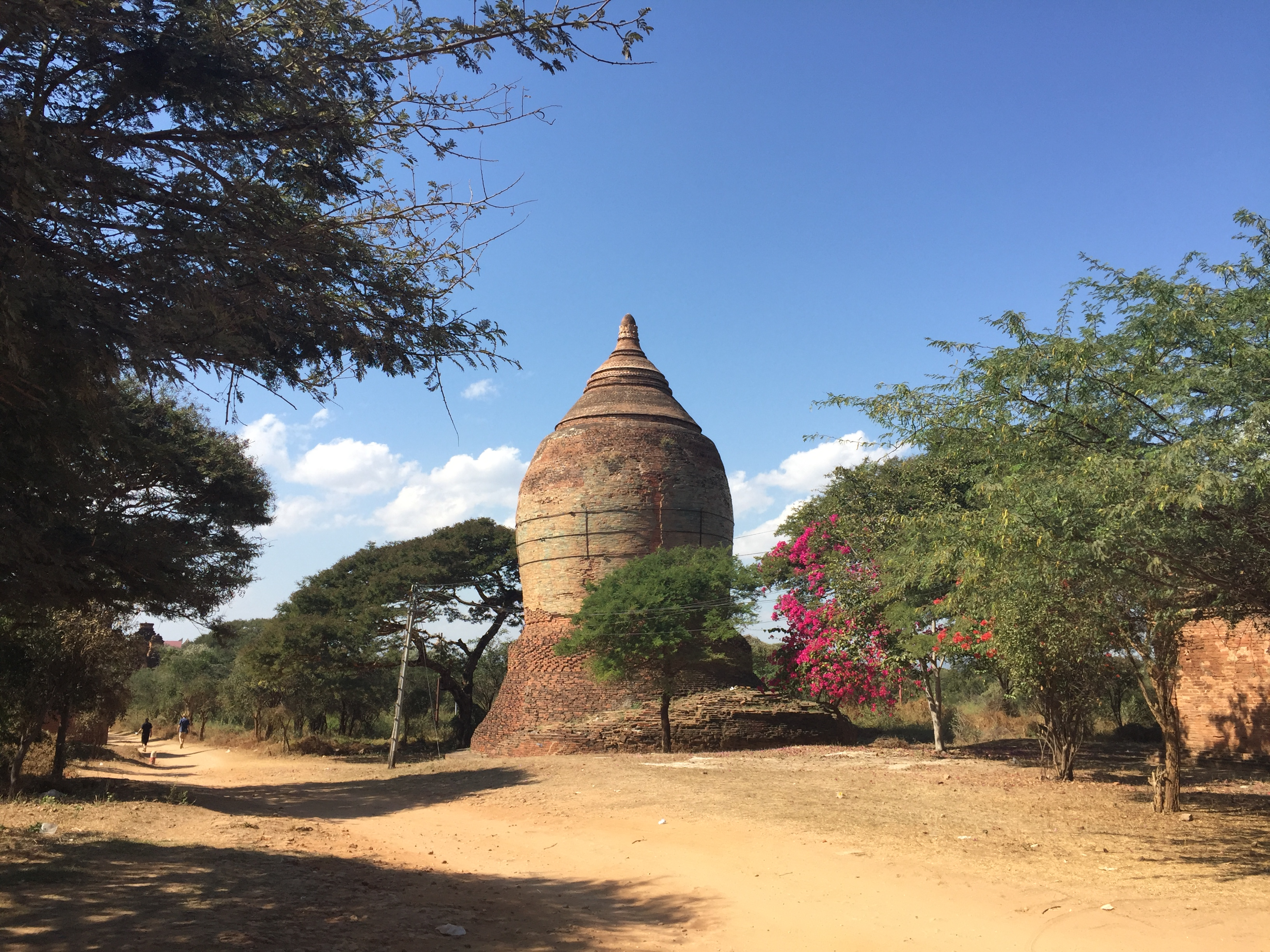 Nga-kywe-na-daung Stupa, Bagan မြန်မာဘာသာ: ငကျွဲနားတောင်း